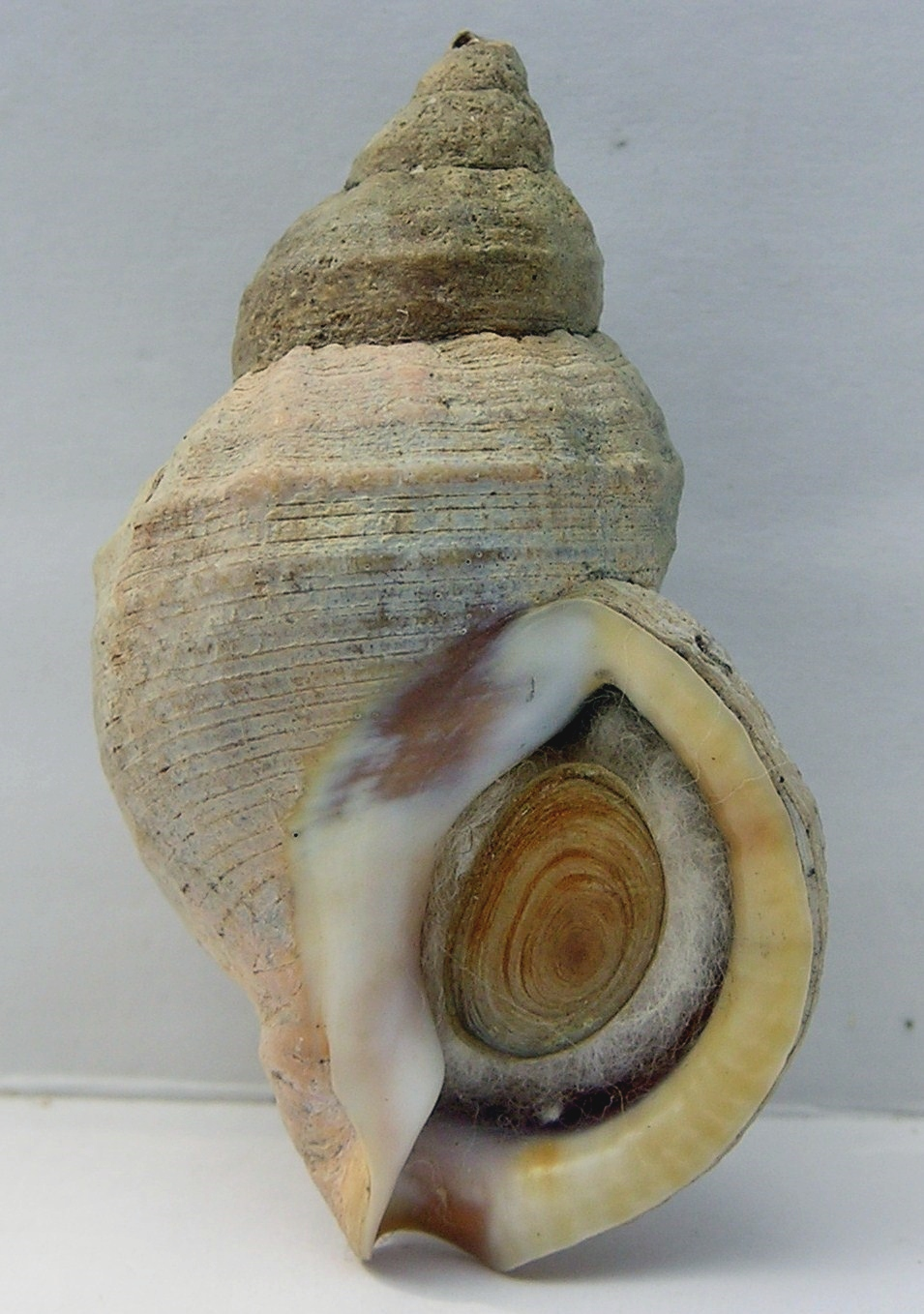 Buccinum mirandum Smith, 1875 , a whelk from Japan